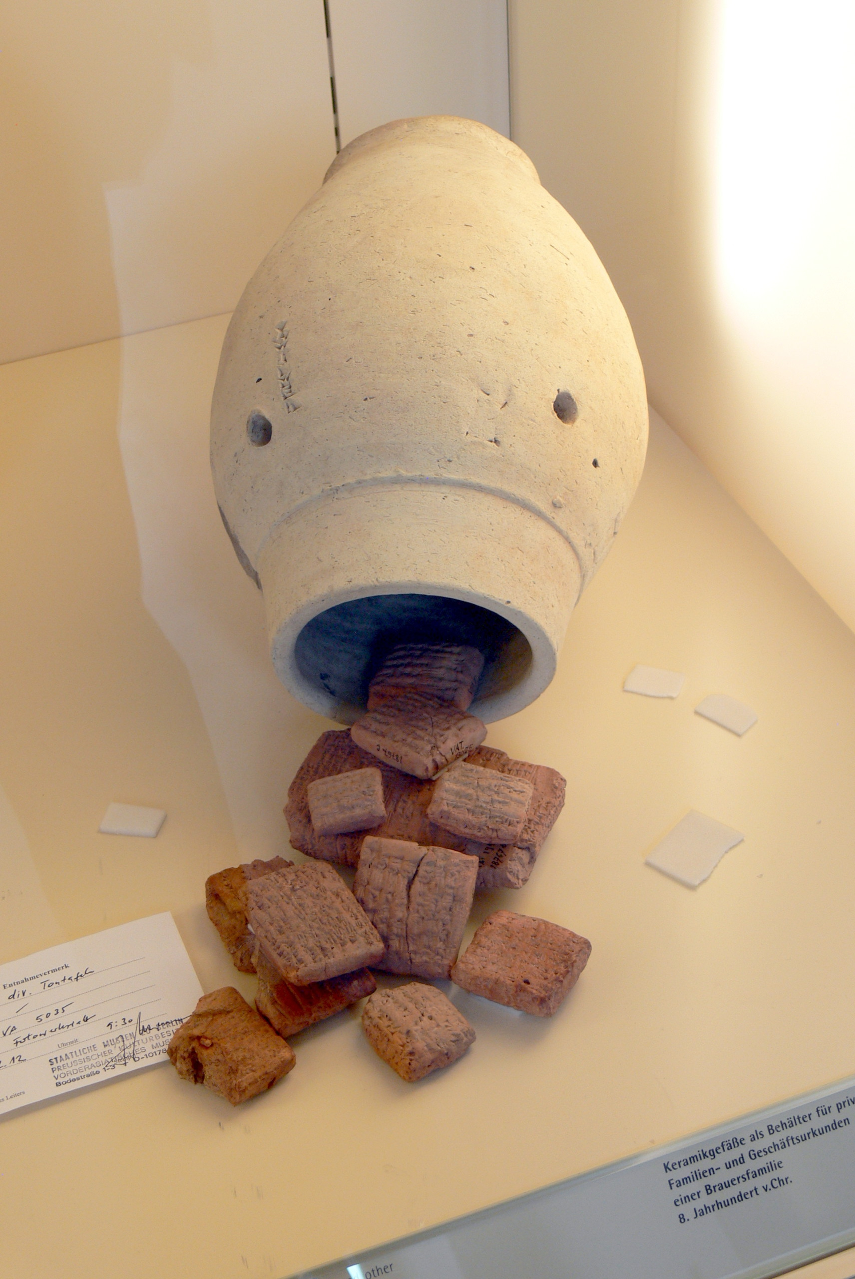 Museum of Ancient Near East ( Berlin ). Ceramic vessel as archives für cuneiform tablets ( 8th century BC ).